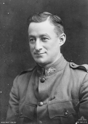 Photograph of Private Edward John Francis Ryan VC. This photograph is a portion of P01383.017, a framed composite photograph (photo-montage) presented to Lieutenant John Hamilton VC by Dr Mannix on the occasion of the Saint Patrick's Day celebrations in Melbourne, 17 March 1920. The composite photograph comprises portraits of fourteen Victoria Cross winners (ten Roman Catholics and four Protestants, all presumably with Irish backgrounds) with portraits of Dr Mannix and the entrepreneur John Wren in the centre. It was probably financed by John Wren.